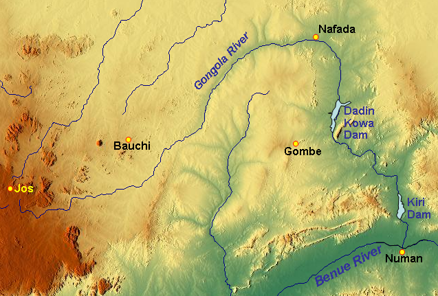 Gongola river, Nigeria, showing locations on major dams